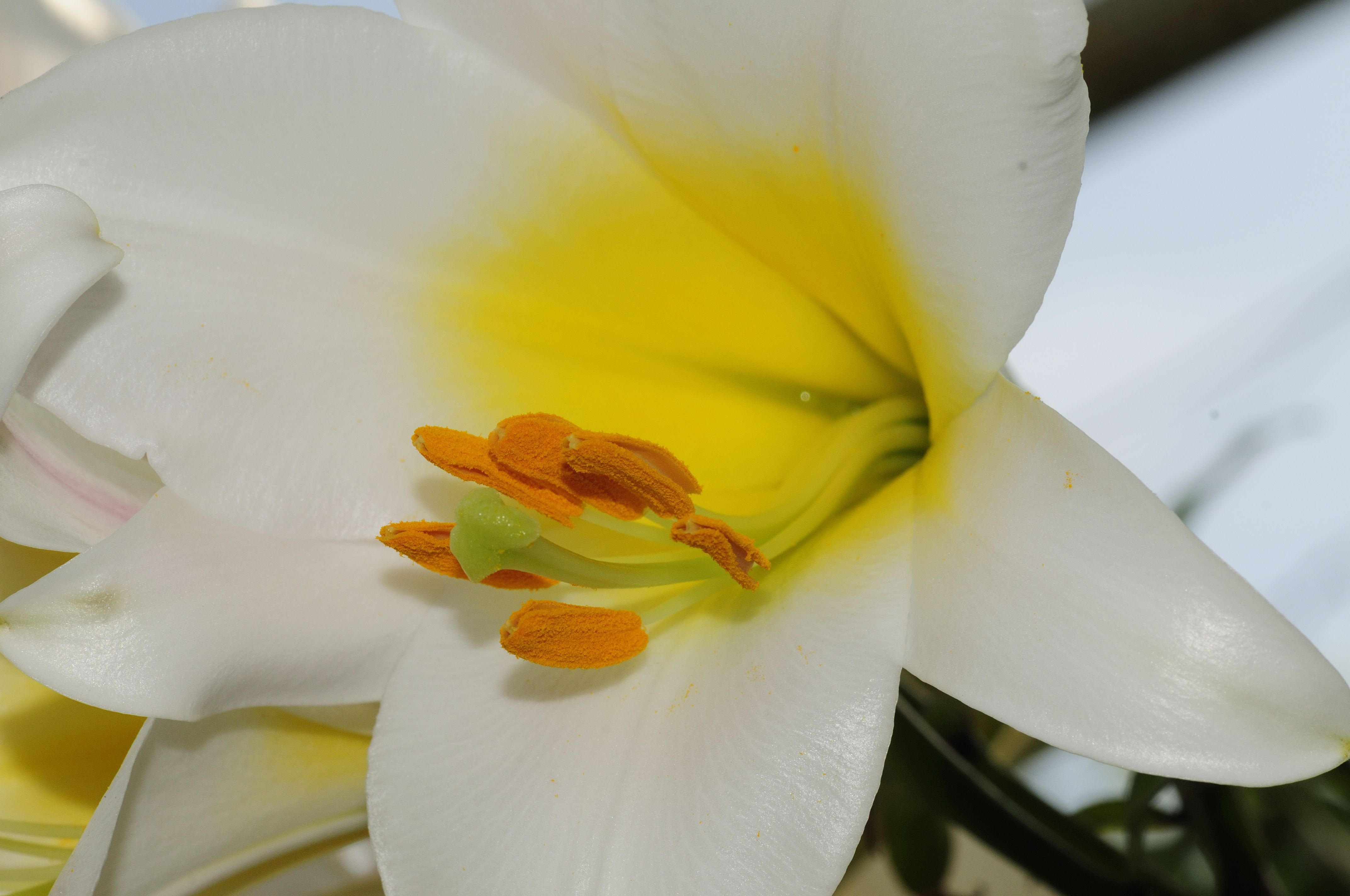 Please report references to .